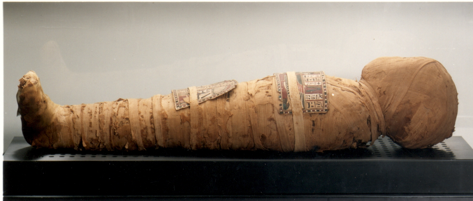 Mummified body of a child of indeterminate sex, about five years old. The mummy is covered with polychrome two templates located on the chest and legs and fastened with bandages.